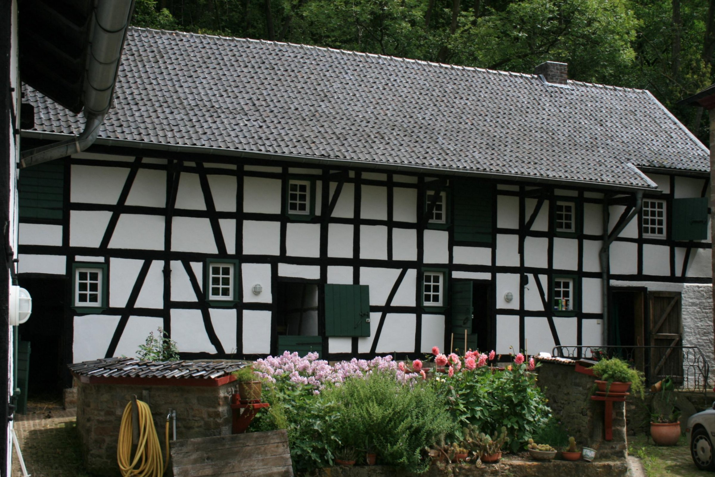 Cultural heritage monument No. 006 in Nideggen